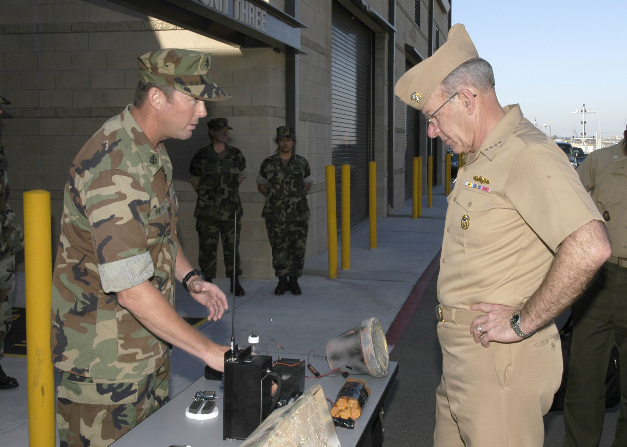 San Diego, Calif. (May 20, 2005) - Chief Petty Officer Pettus demonstrates the proper handling and disposal techniques of an Improvised Explosive Device (IED), to the Chief of Naval Operations (CNO), Adm. Vern Clark during a recent visit to Explosive Ordnance Disposal, Mobile Unit Three, (EODMU-3) in San Diego, Calif. U.S. Navy photo By Photographer's Mate 3rd Class Quinton D. Jackson (RELEASED)